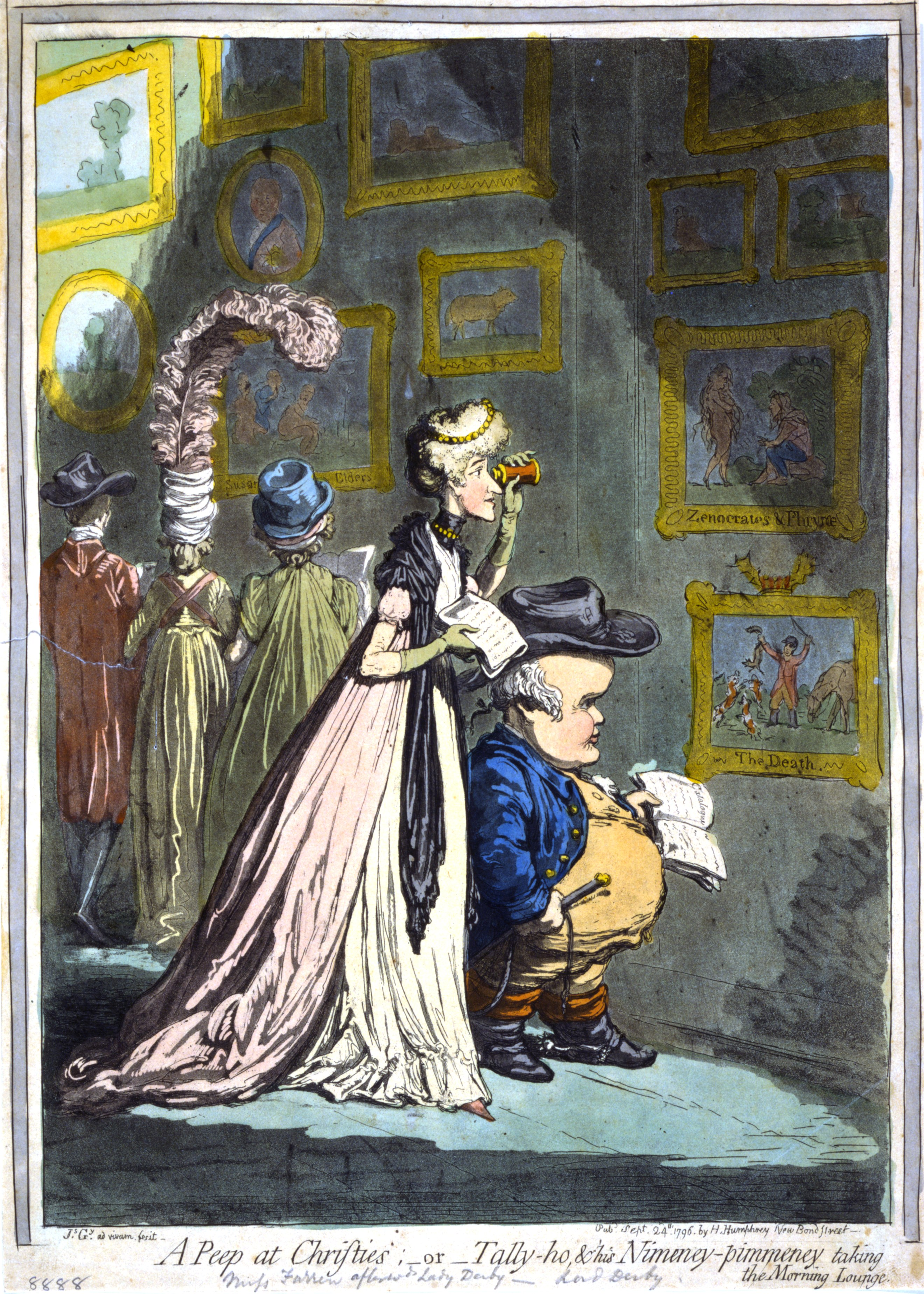 A peep at Christies' ;—or—Tally-ho, & his Nimeney-pimmeney taking the Morning Lounge / Js.Gy.ad vivam.fecit. SUMMARY: Miss Elizabeth Farren and Lord Derby walk together inspecting pictures. She, very thin and tall, looks over his head through a glass at a picture in the second row of Zenocrates & Phryne. He looks at the picture immediately below, The Death, a huntsman holding up a fox to the hounds. Lord Derby, much caricatured, very short and obese, wears riding-dress with spurred boots and holds a whip. Miss Farren wears no hat, a dress hanging from the shoulders and trailing her, short sleeves and gloves. Both hold an open catalogue. MEDIUM: 1 print : aquatint, hand-colored. CREATED/PUBLISHED: [London] : Pubd. by H. Humphrey, 1796 Sept. 24th. According to Wright & Evans, Historical and Descriptive Account of the Caricatures of James Gillray (1851, OCLC 59510372), p. 429, "Miss Farren acted with inimitable skill the characer of Nimeney-Pimeney in General Burgoyne's Heiress. For some reason or other, this lady, one of the most admired beauties of her day, was an object of determined hostility with Gillray. But a few months after the date of this caricature, she became the second wife of the Earl of Derby, who, for his political principles, was also a very frequent subject of Gillray's wit. Lord Derby was a great hunter, and here, viewing the pictures at Christie's, they are supposed to be shewing their several tastes. It may be remarked, in regard to the allusion apparently made here, that no slur was ever cast on Miss Farren's virtue. In evidence of which we think it right to record that when Miss Farren became Countess of Derby, she addressed a letter to Queen Charlotte, to inquire whether she would be admitted to her Drawing-room. The Queen replied, that she would be very happy to receive her there, as she always understood her conduct to be very exemplary."